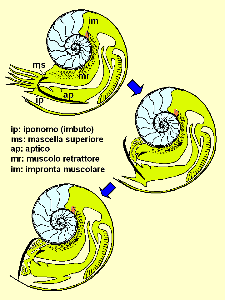 tentative reconstruction of soft part anatomy of an ammonite and conceptual scheme of the aptychi function as both opercula and lower jaw. After Lehmann (1967; 1972; 1975) and Dzik(1981). Text in italian.